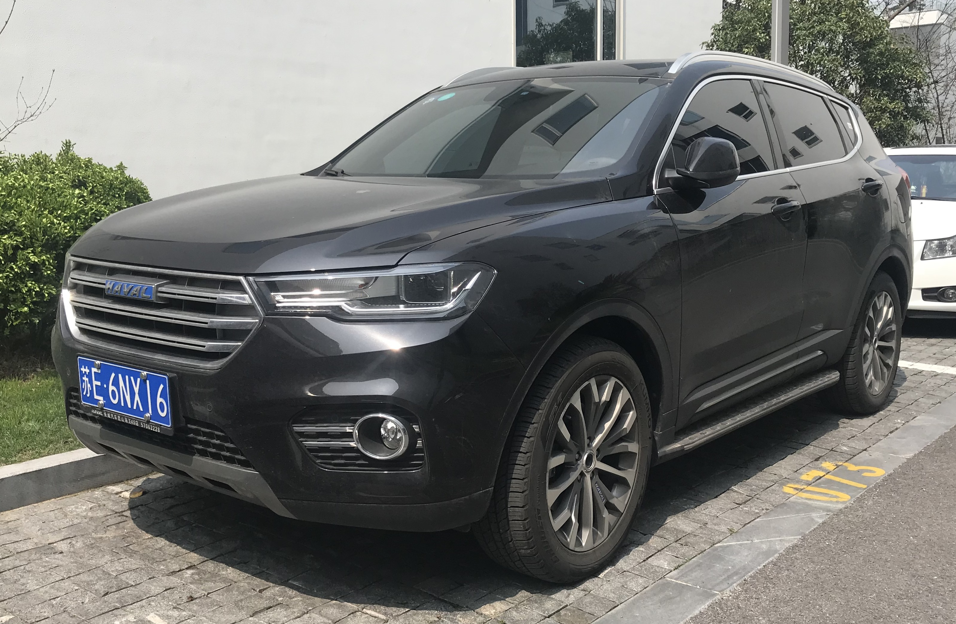 Haval H6 II Blue Label